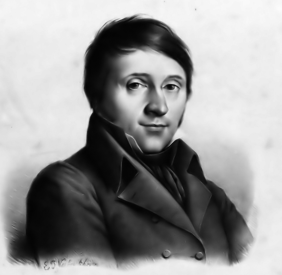 Pieter Frans de Noter 1826